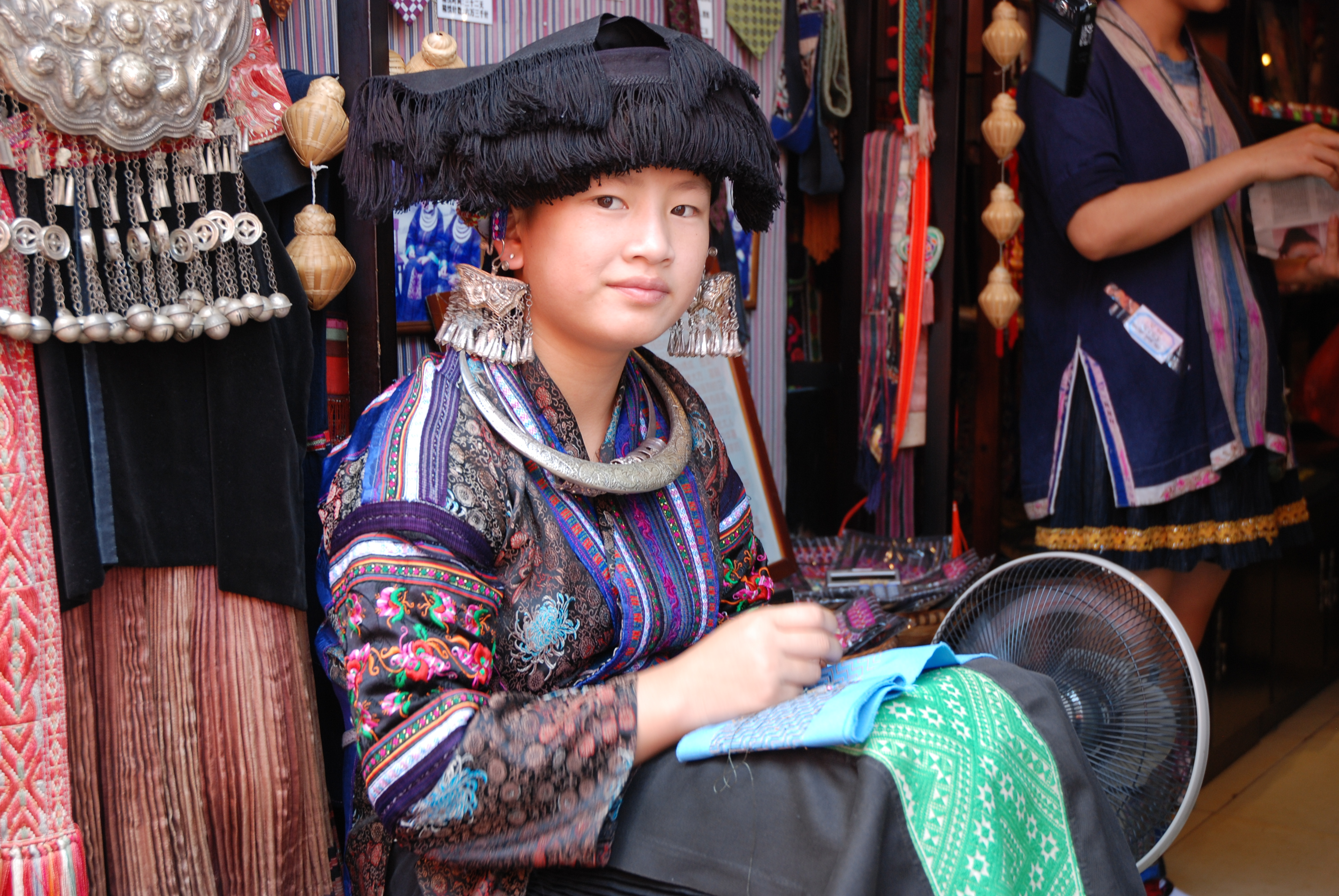 Young Miao woman in Yangshuo, China, wearing national costume.